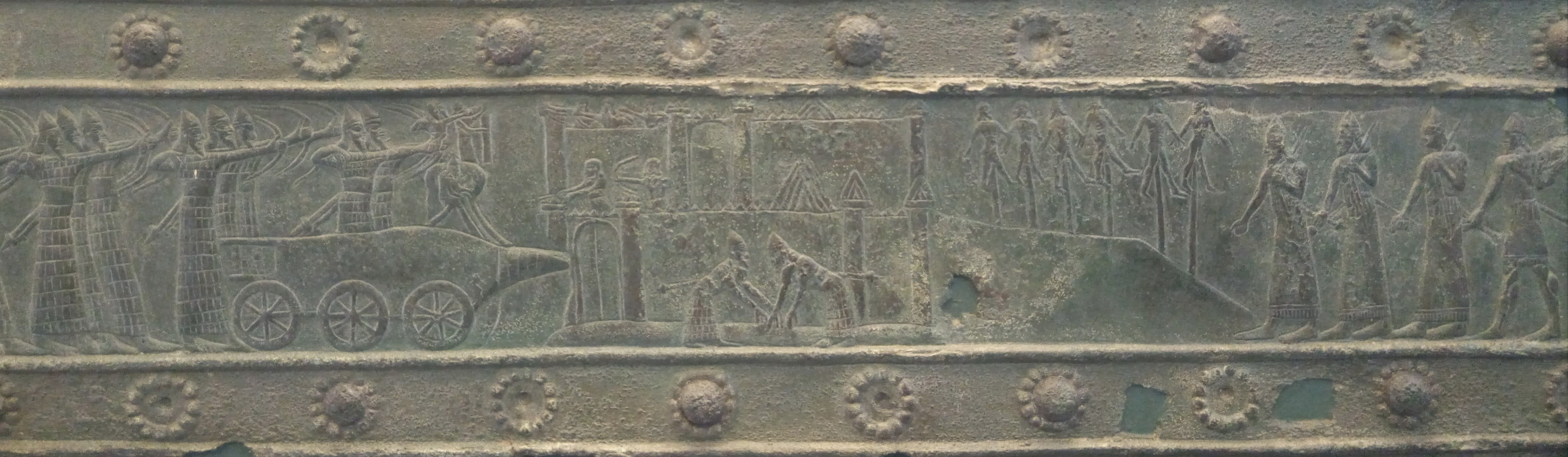 Balawat Gates : assyrian troups storming a city in Northern Syria, 858 BC ; impaled victims in front of the city walls. L. W. King, Bronze reliefs from the gates of Shalmaneser, King of Assyria, B.C. 860-825, London, 1915, plates XX-XXI, Band IV 2 et 3.